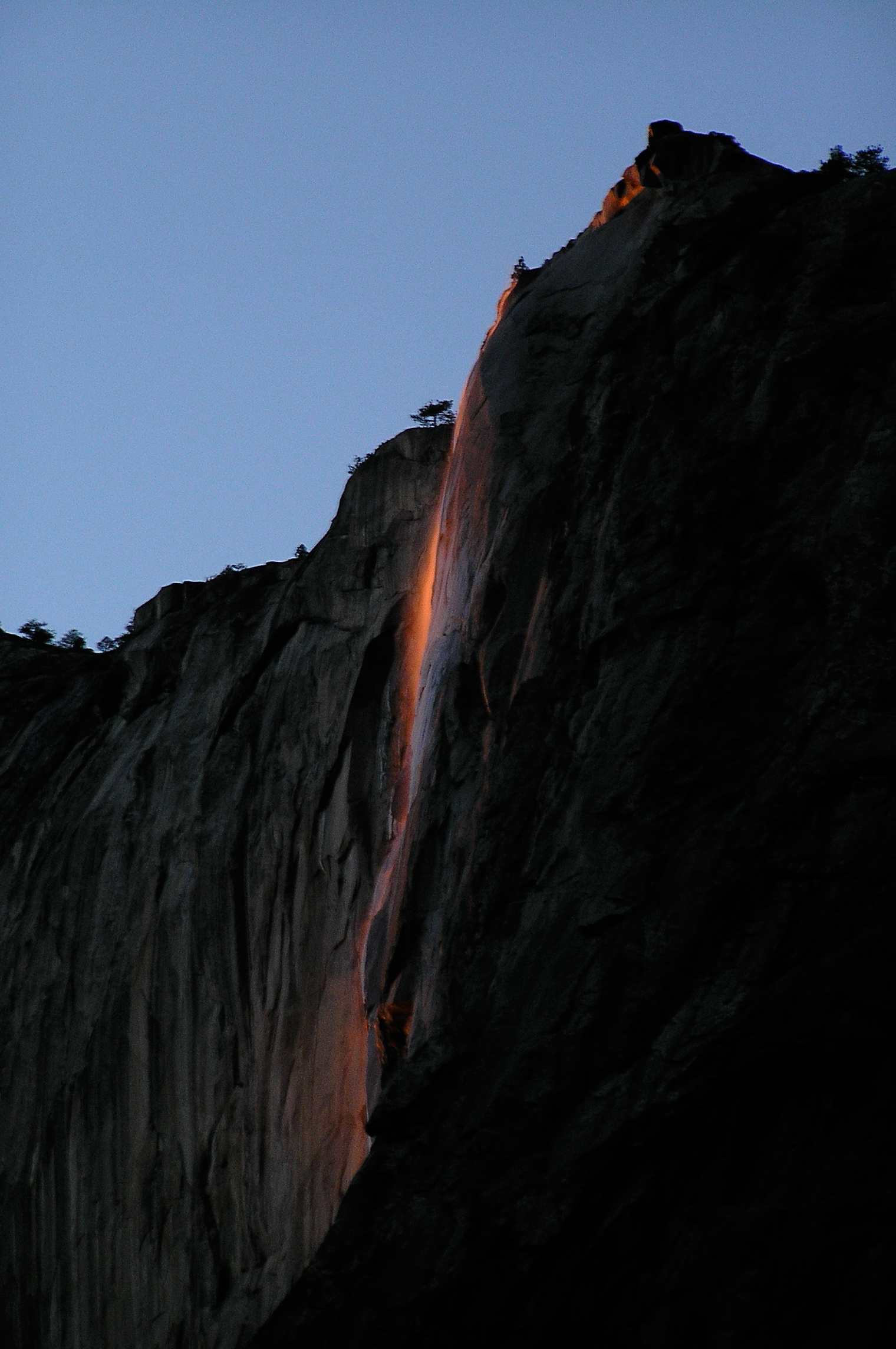 Horsetail Fall, Yosemite National Park, California.